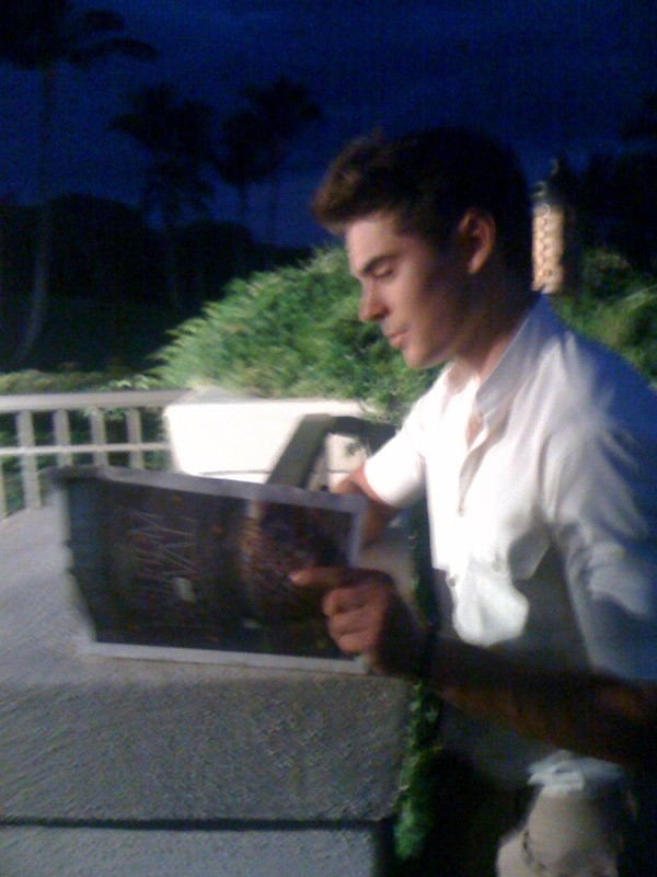 BUSTED! Zac Efron. On set filming Charlie St. Cloud.